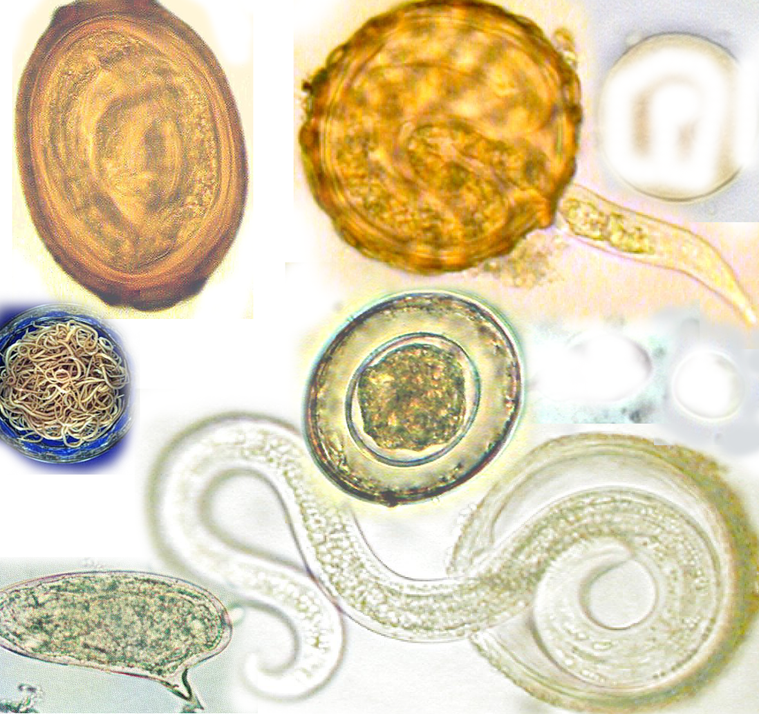 Collage Helminth eggs: these eggs are of big medical importance, and are widely distributed worldwide, when they grow and get to the adult state (worms), they cause over 3 billion human infections around the world.